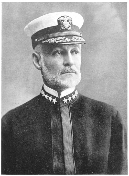 Rear-Admiral William Sowden Sims, U.S.N.